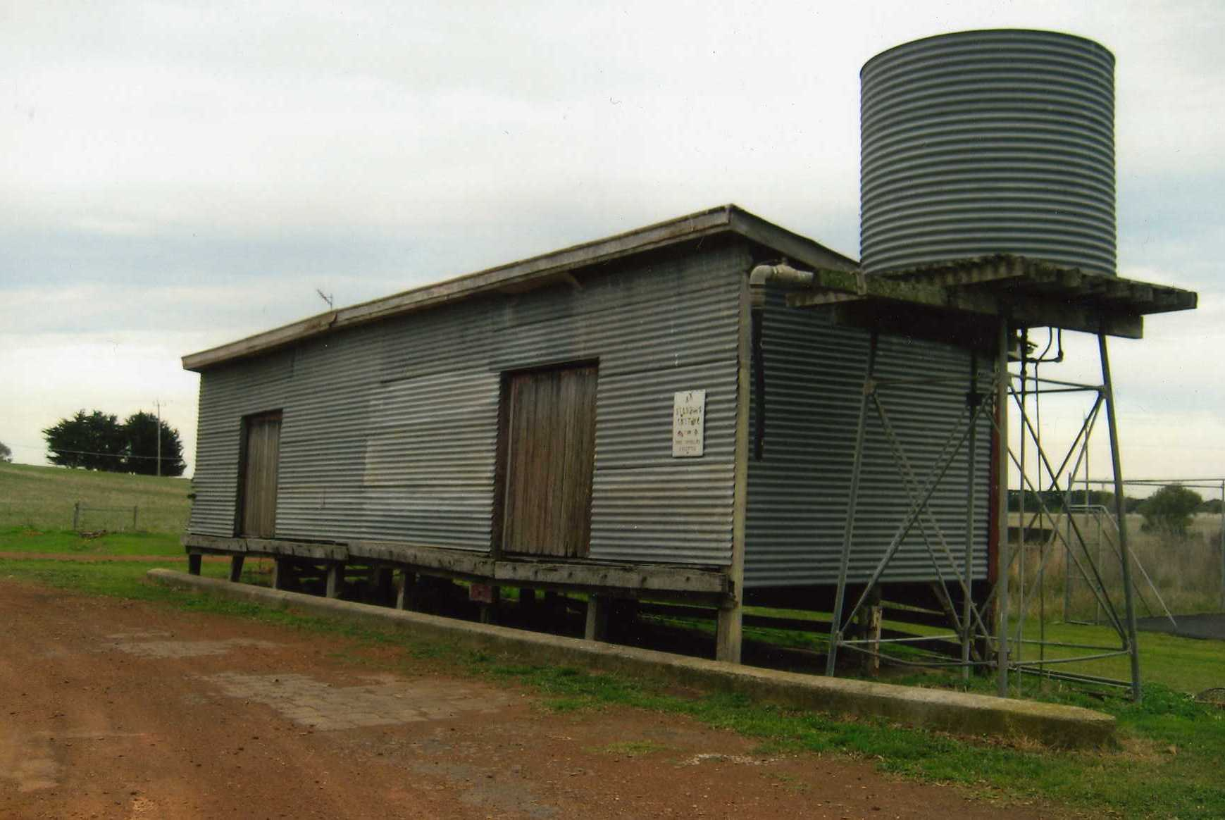 view from main street april 2012